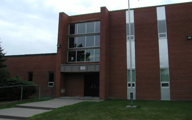 School